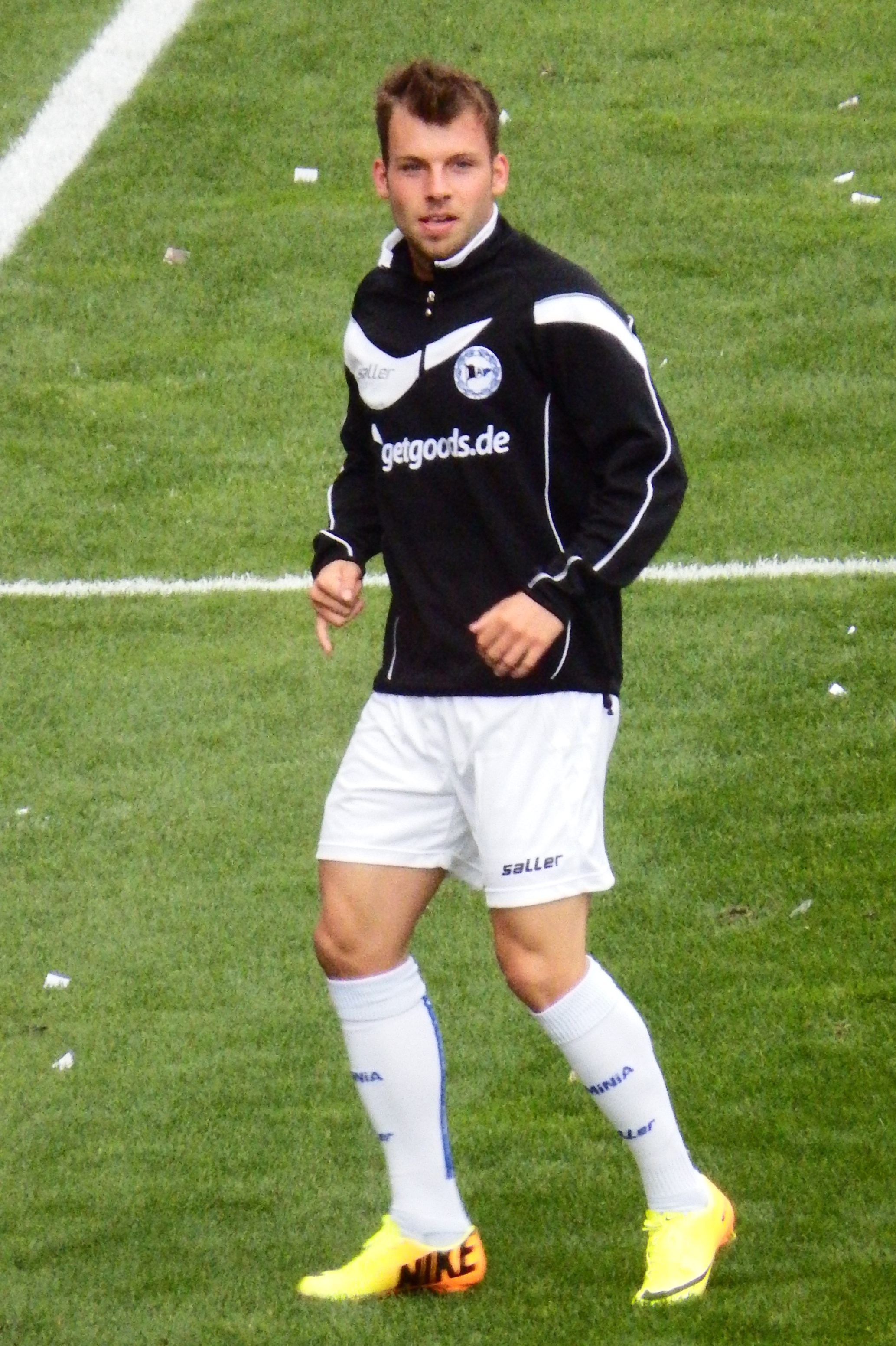 Jonas Strifler as Player of Arminia Bielefeld